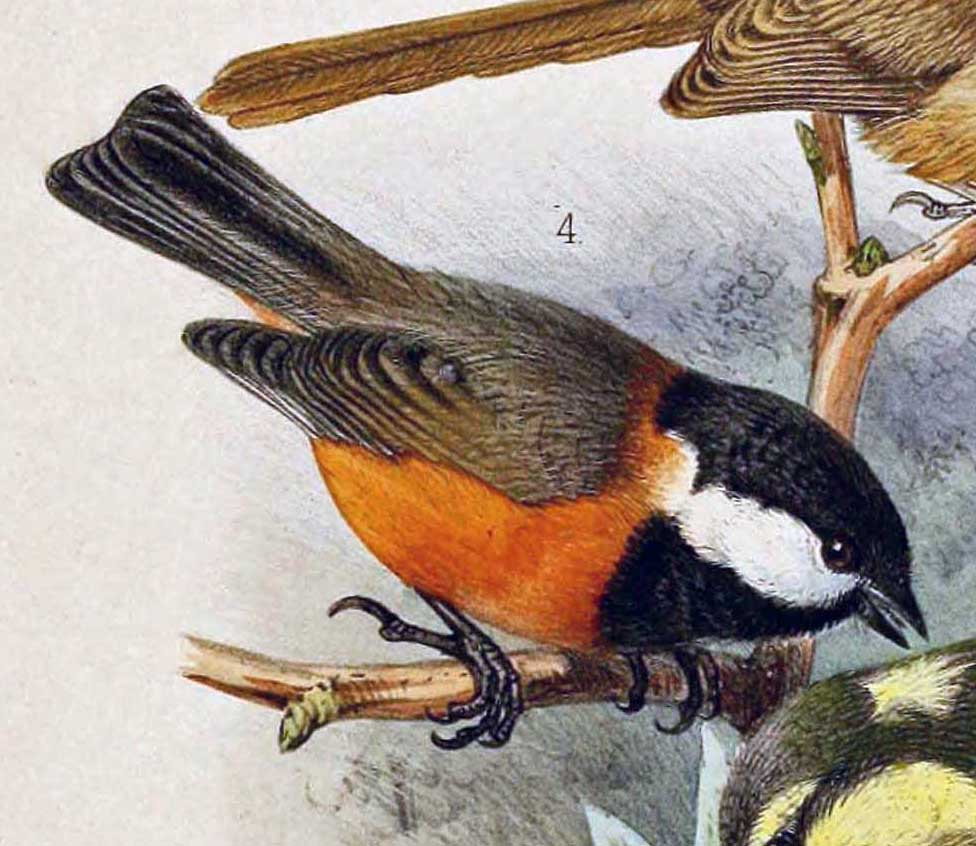 « Poecile davidi » = Poecile davidi (Père David's tit) - adult male